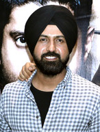 Gippy Grewal & Farhan Akhtar snapped promoting Lucknow Central in Chandigarh